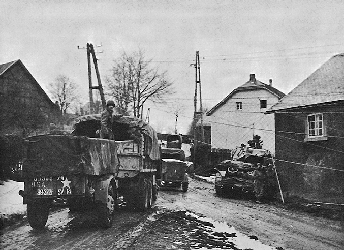 99TH DIVISION VEHICLES MOVING THROUGH WIRTZFELD en route to Elsenborn. Vehicle in foreground belongs to Service Battery, 372nd Field Artillery Battalion. To the right, an M10 tank destroyer covers the column's movement.